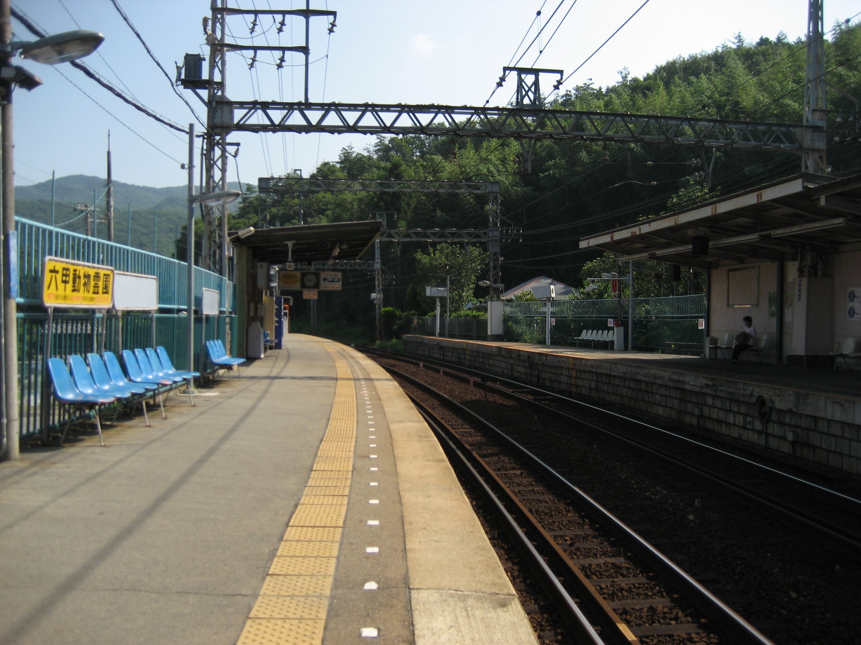 Kobe Electric Railway Minotani Station platform